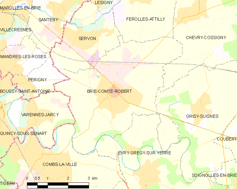 Map of French municipality Brie-Comte-Robert